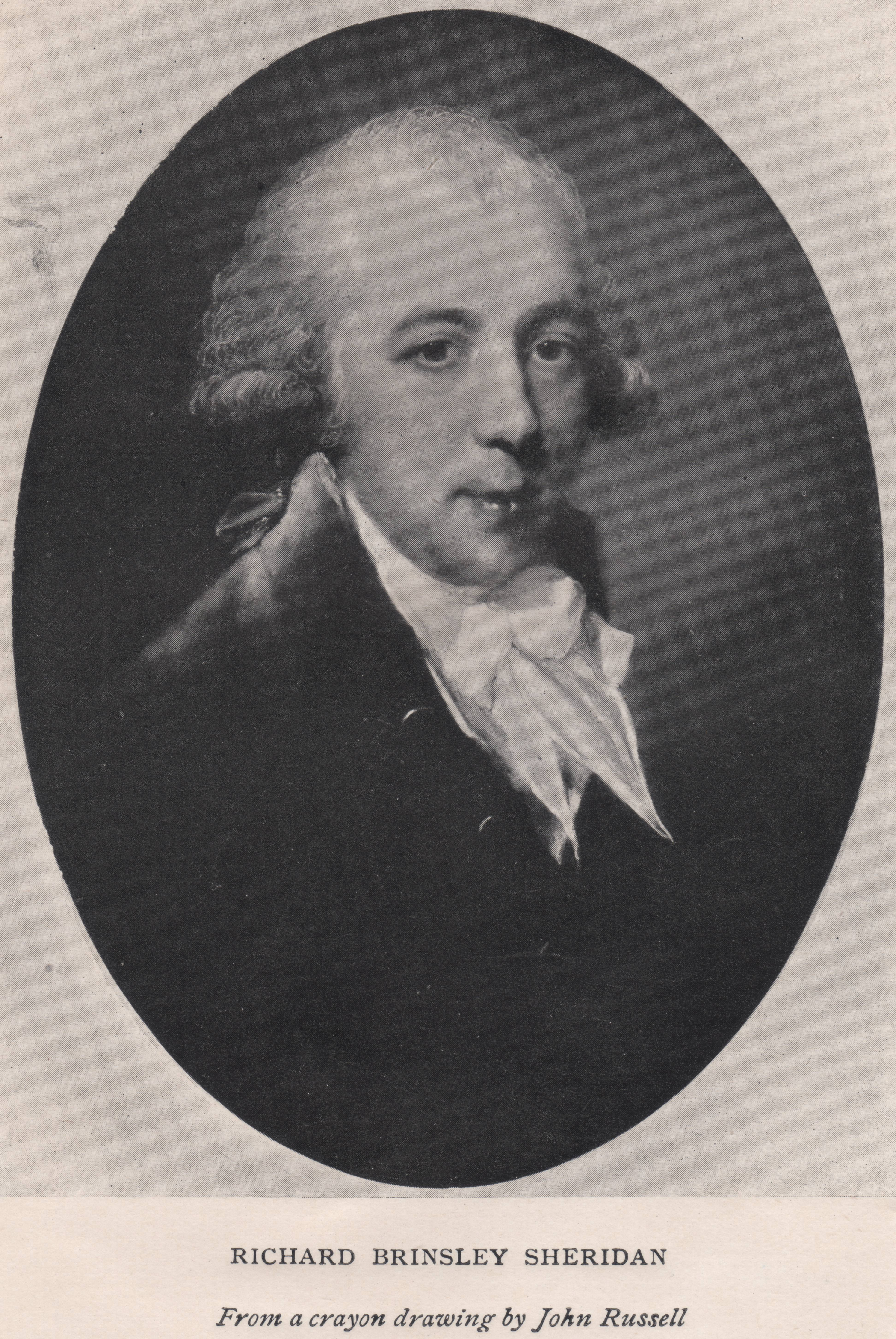 Scanned from The Dramatic Works of Richard Brinsley Sheridan With An Introduction By Joseph Knight And Fifteen Illustrations Oxford Edition Published by Henry Frowde 1906 Oxford University Press Printed by Horace Hart Bookseller label: Boyveau & Chevillet, Paris. Image text: From a crayon drawing by John Russell Book is in the Public Domain in the US and UK Image scanned at 1200 dpi bitmap (colour) then converted to jpeg.